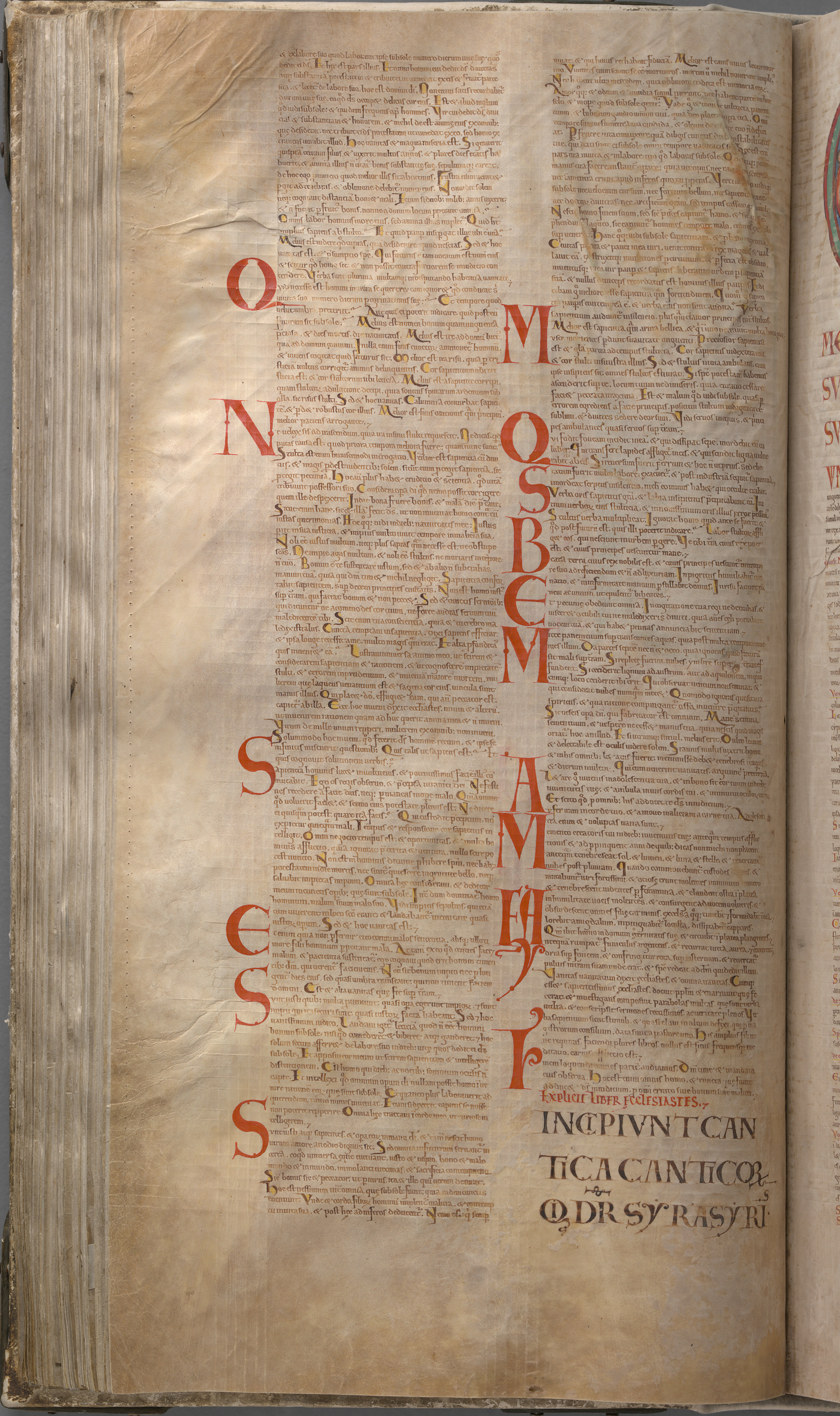 Giant Book) is the largest extant medieval manuscript in the world. It is also known as the Devil's Bible because of a large illustration of the devil on the inside and the legend surrounding its creation. It is thought to have been created in the early 13th century in the Benedictine monastery of Podlažice in Bohemia (modern Czech Republic). It contains the Vulgate Bible as well as many historical documents all written in Latin. During the Thirty Years' War in 1648, the entire collection was taken by the Swedish army as plunder, and now it is preserved at the National Library of Sweden in Stockholm, though it is not normally on display.